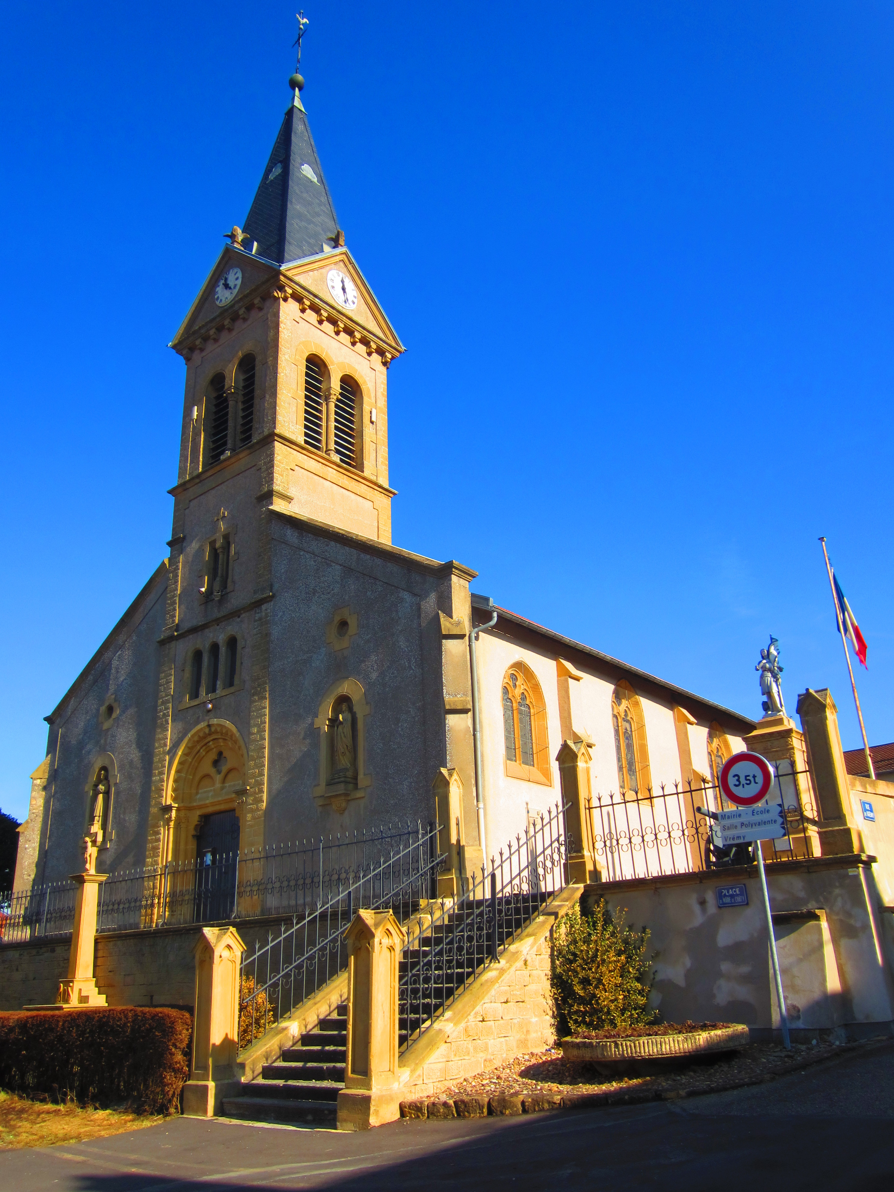 Failly church